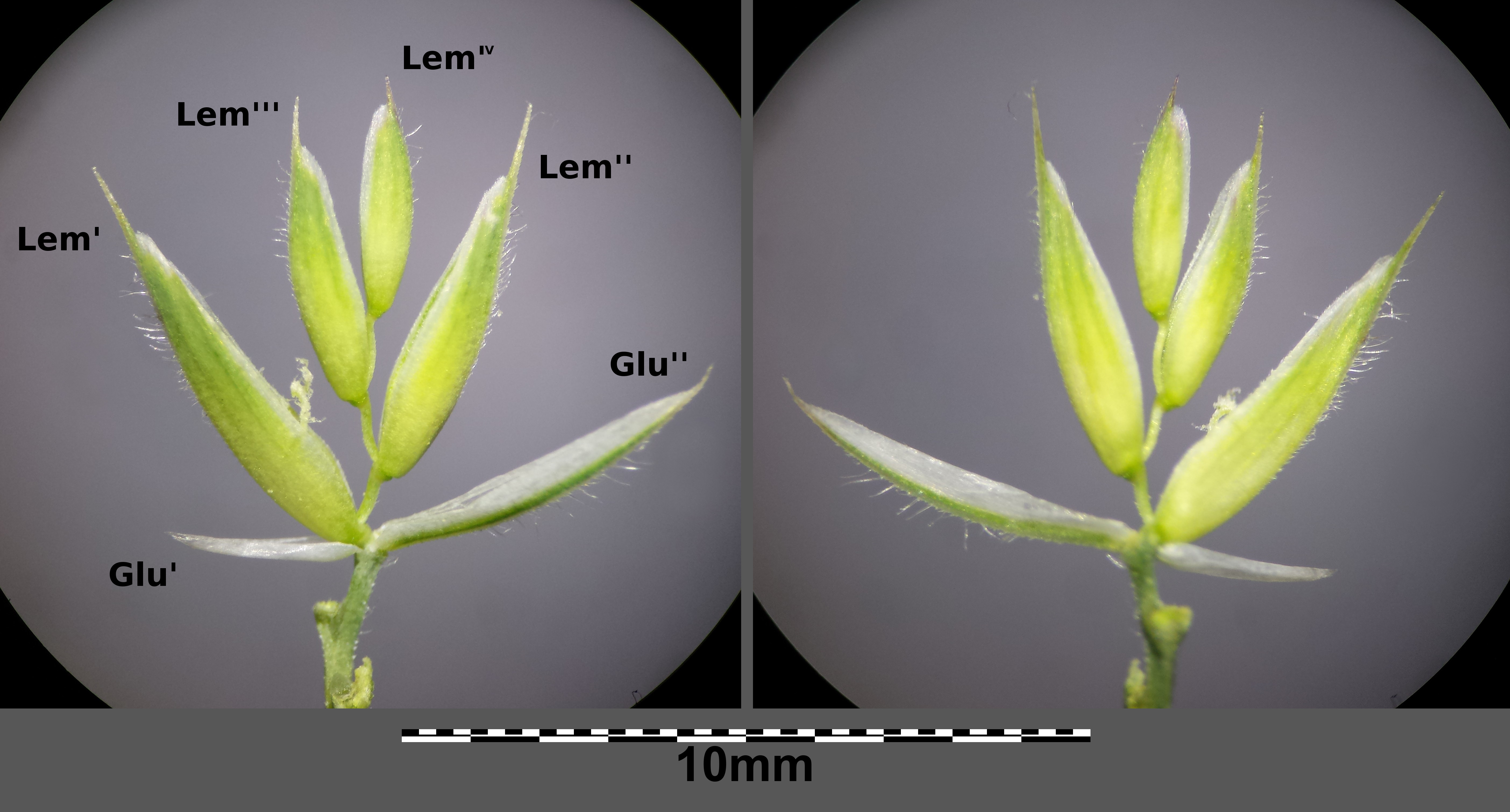 Expanded spikelet with Glumae (Glu) and four flowers wrapped within Lemma (Lem) Taxonym: Dactylis glomerata subsp. glomerata ss Fischer et al. EfÖLS 2008 ISBN 978-3-85474-187-9 Location: Donaupark, Vienna-Donaustadt - ca. 160 m a.s.l. Habitat: dry meadows